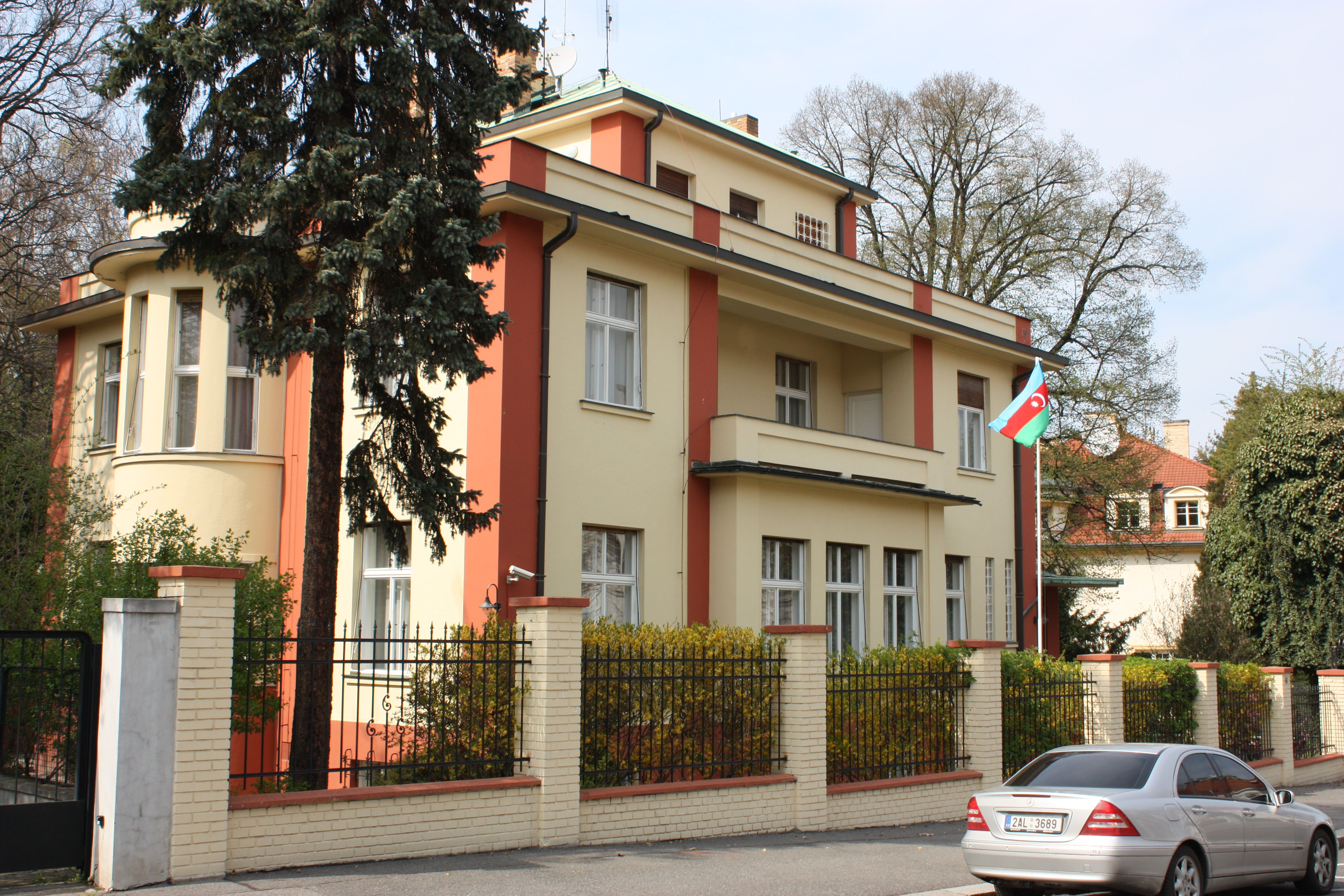 Azerbaijani Embassy in Prague - Bubeneč, Czechia